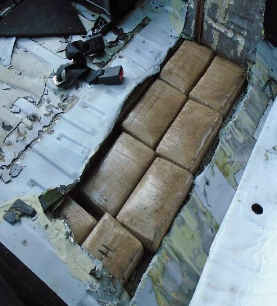 TUCSON, Ariz. – Customs and Border Protection officers wrapped up their first seven days of November with seven arrested in separate attempts to smuggle more than $1 million in hard drugs through the Port of Nogales. Officers at the DeConcini crossing started the month by seizing more than 20 pounds of meth on Nov. 1 valued in excess of $60,000, after a drug canine alerted them to the dashboard area of a Chevy sedan driven by a 22-year-old Phoenix woman. That same afternoon, officers at the Mariposa crossing were alerted to a Mazda sedan, driven by a 64-year-old man from Magdalena, Sonora, Mexico, containing almost 37 pounds of cocaine worth more than $418,000. Photo provided by: U.S. Customs and Border Protection